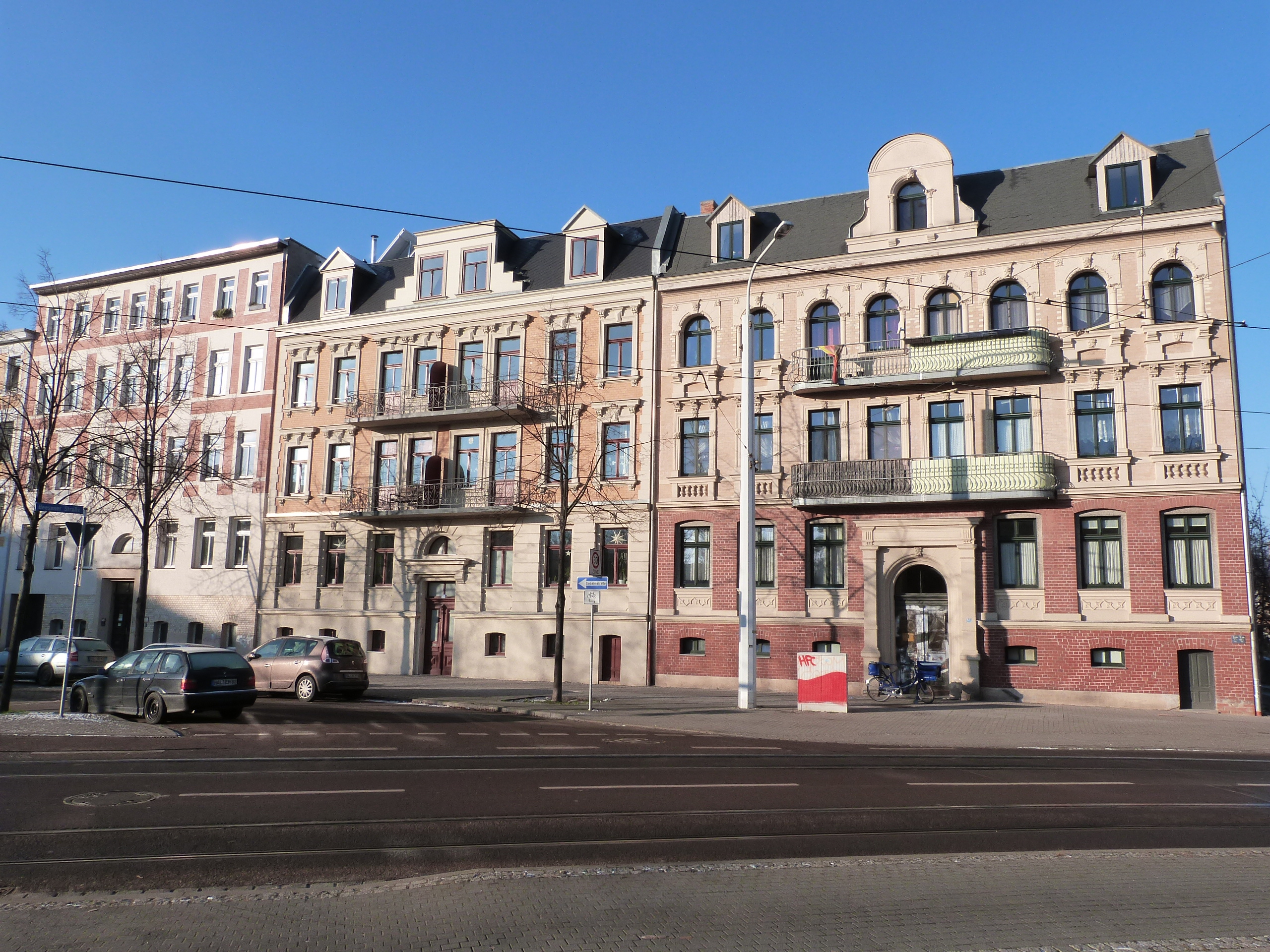 Street Melanchthonstraße No. 42-44, Halle (Saale)